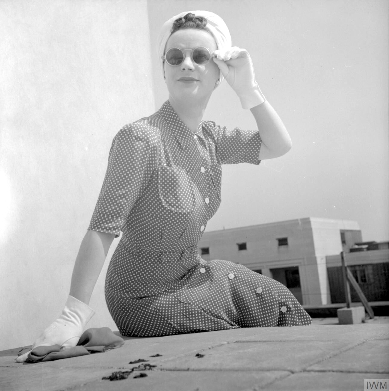 How a British Woman Dresses in Wartime- Utility Clothing in Britain, 1943 A model sits on a wall as she poses for the camera on a rooftop in Bloomsbury to show off her scarlet and white spot-printed Utility rayon shirt dress with front-buttoning. This dress costs 7 coupons and 53/-. She is wearing the dress with a white turban (also featured in D 14782, D 14786 and D 14798) and white gloves. She is also sporting a pair of sunglasses, her gloved hand holding the wire arm of the glasses.